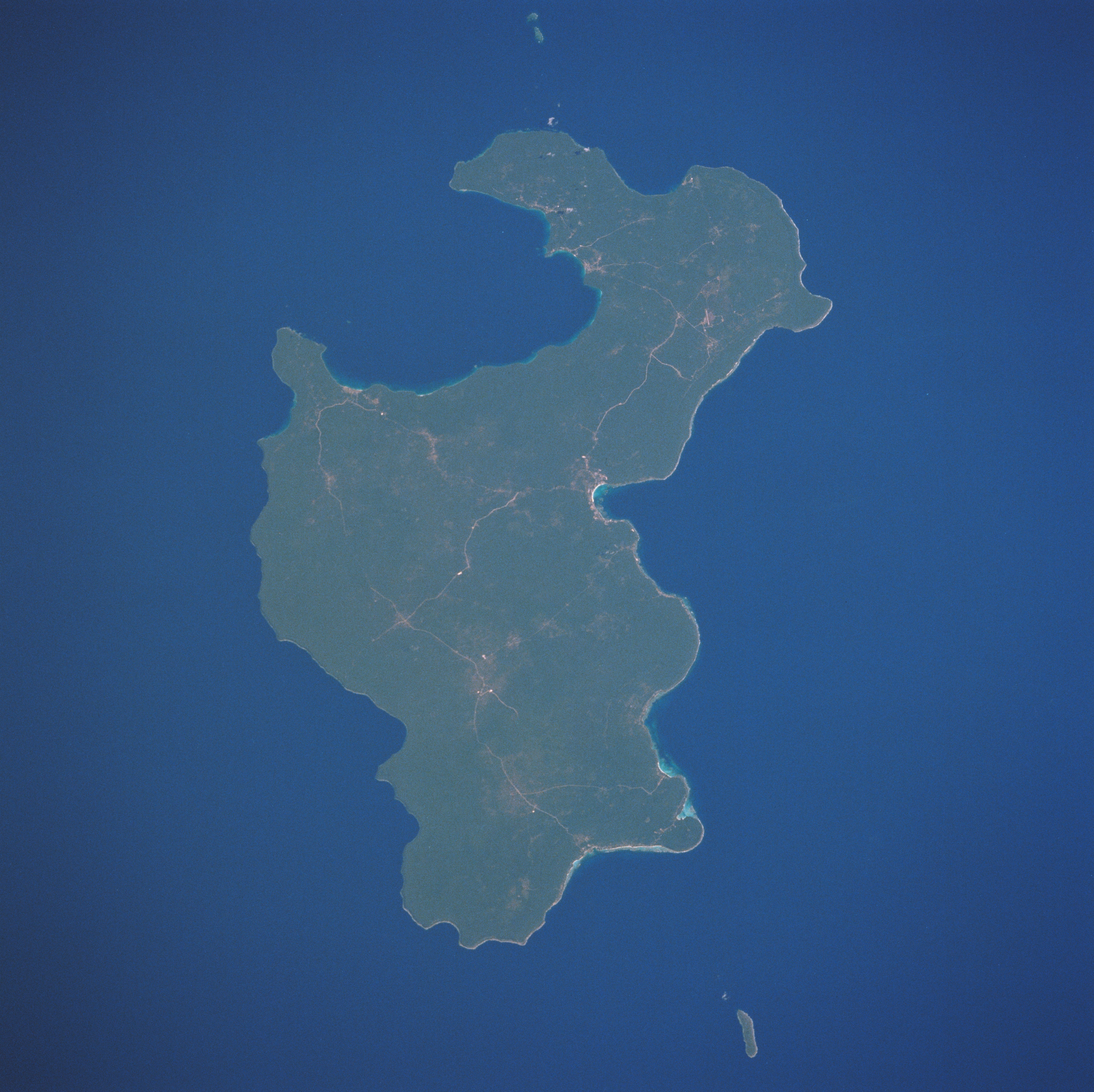 Lifou Island, Loyalty Islands - November 1990 image description here